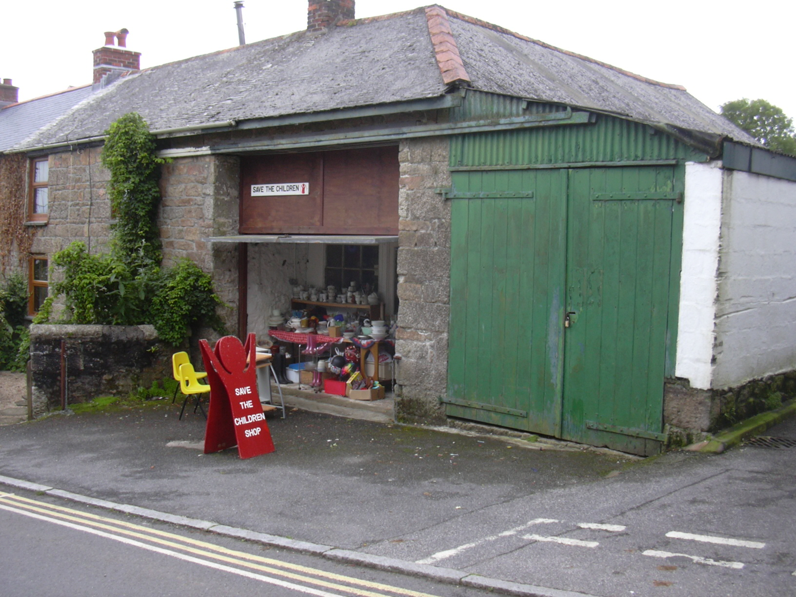 The Save the Children Children Charity Shop in Fore Street, Constantine